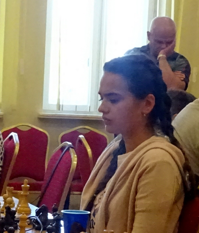 Chess player Marija Šibajeva at chess festival in Klaipėda 2019.07.23